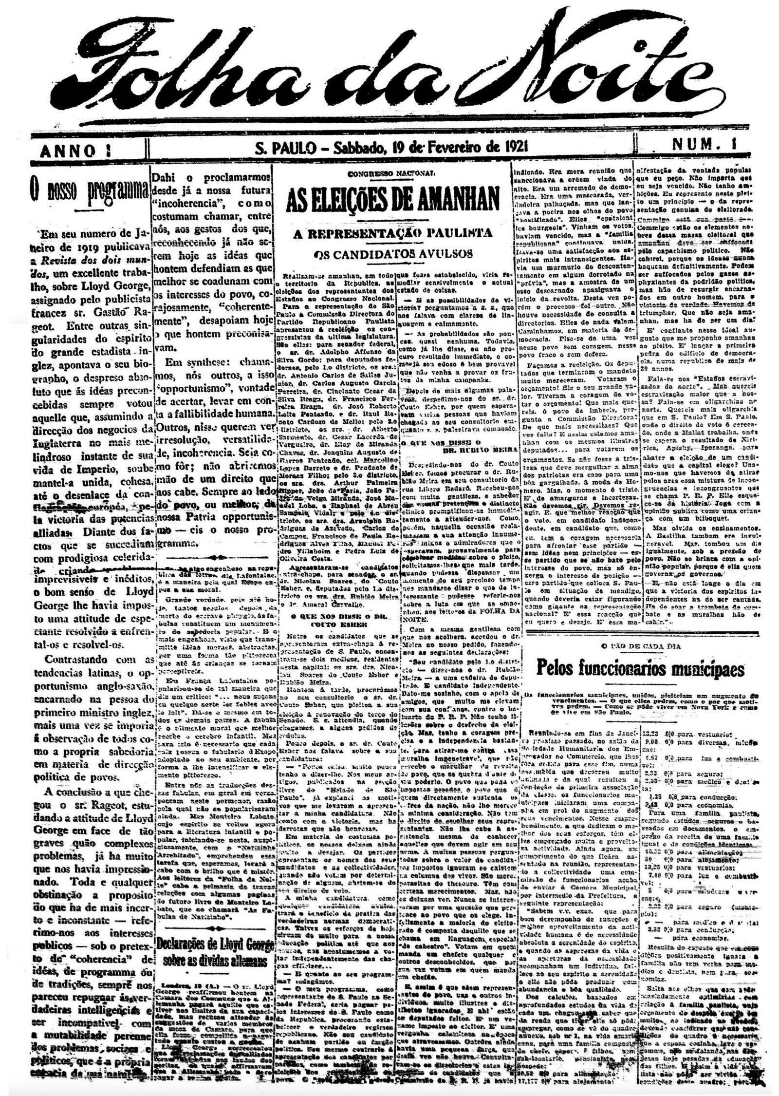 Cover of the first issue of the Brazilian newspaper "Folha da Noite", which would in 1960 become the current Folha de S. Paulo